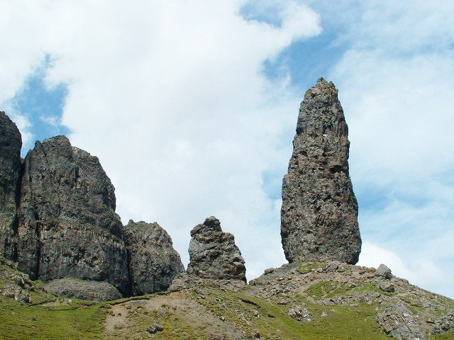 The Old Man of Storr. An obelisk 50m high